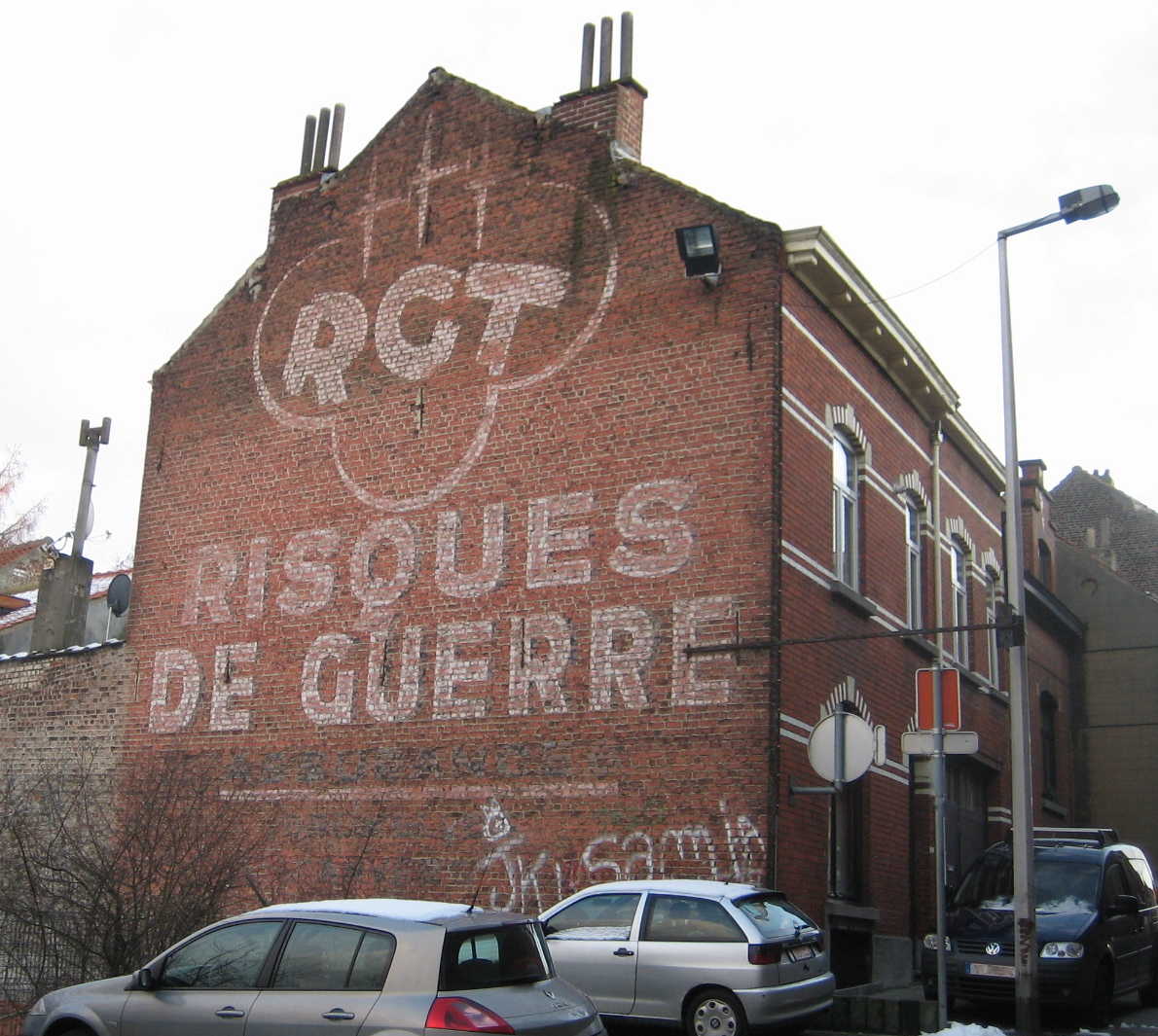 Facade with old WWII advertisement for war damage insurance in Evere, Brussels-Capital Region (rue Walckiersstr. 42-44)